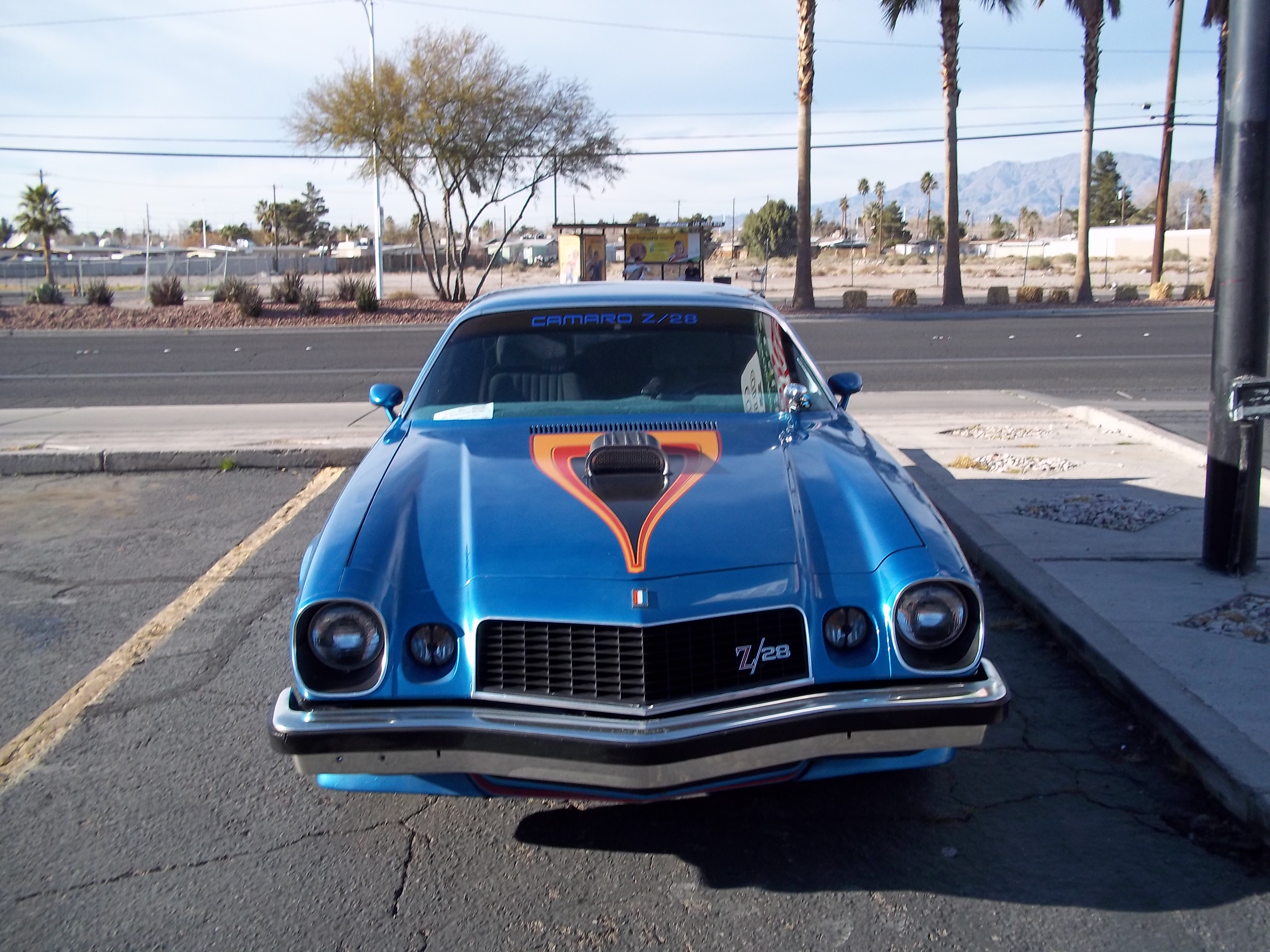 Built one '75 z/28. Did not build '76 z/28. This is an apparent '77 z/28, except Chevy did not add the LT package to the '77? Sharp!! The piece of paper on the passenger-side dash board says, "Please, do not touch my beautiful body." LOL